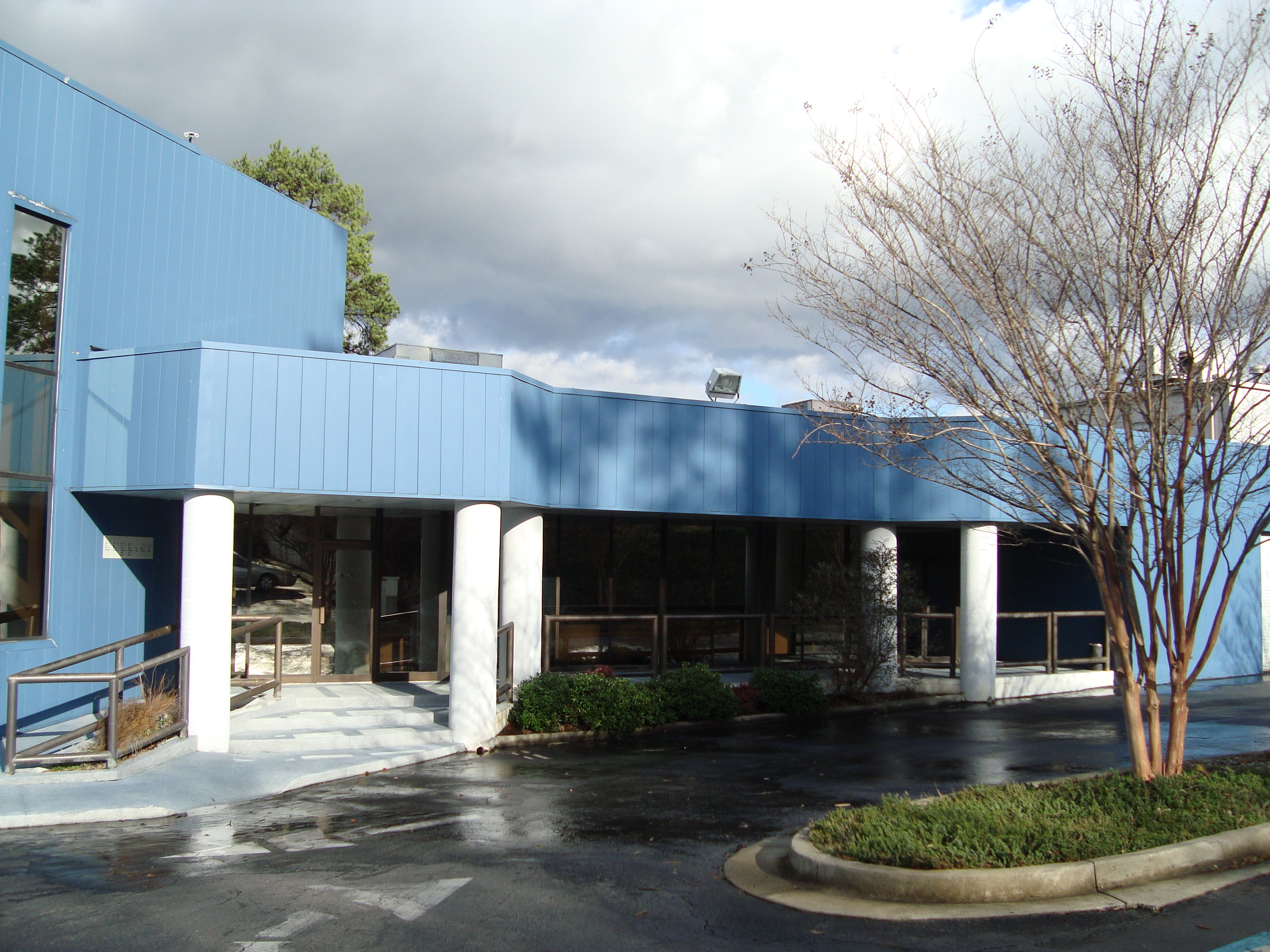 The exterior view of Doppler Studios, as photographed from the main parking lot.